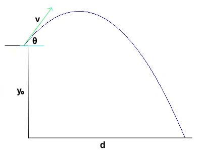 Created by the user Gellender to be placed in Range of a projectile. Parabola generated using Matlab.